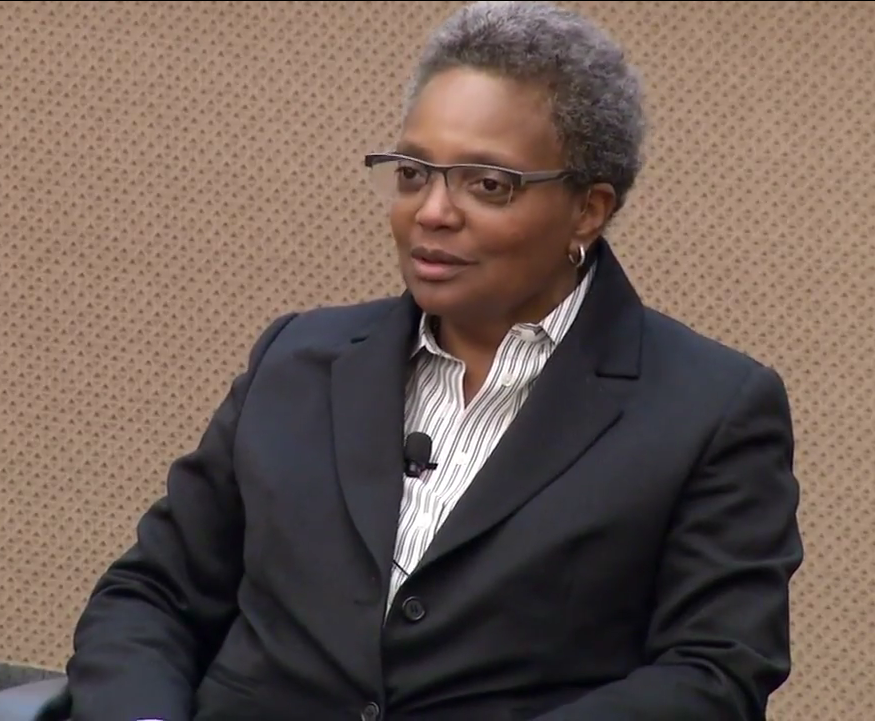 Lori Lightfoot at MacLean Center